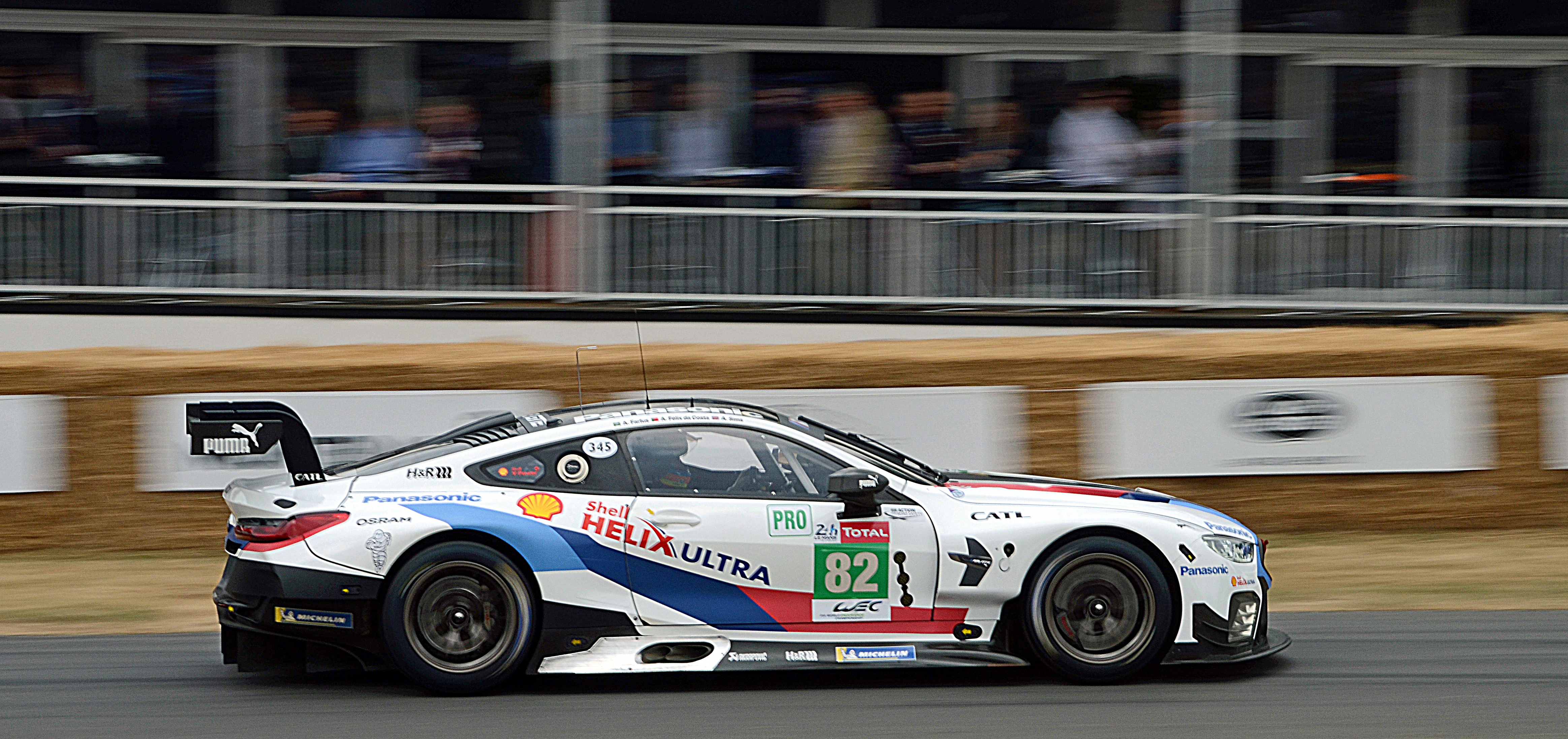 Goodwood Festival of Speed 2018